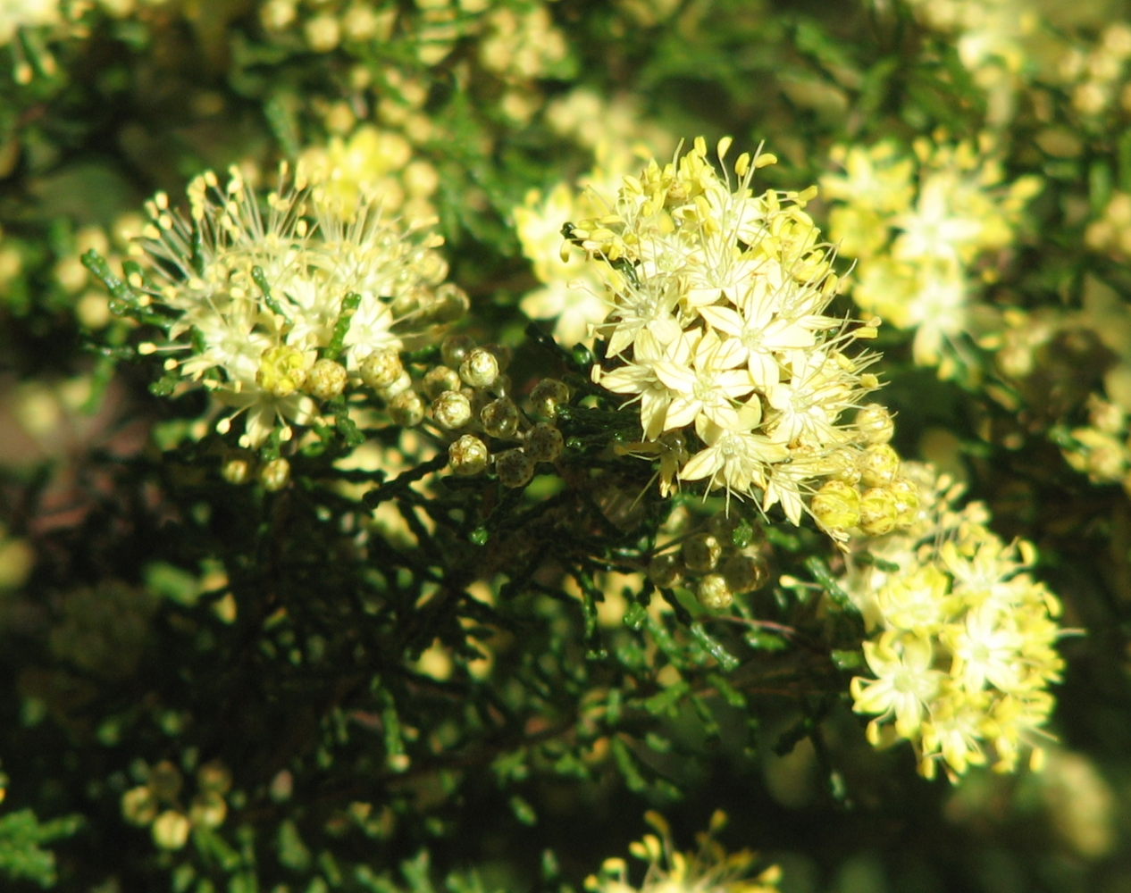 Phebalium bullatum (cultivated) Burnley Gardens, Burnley, Victoria, Australia